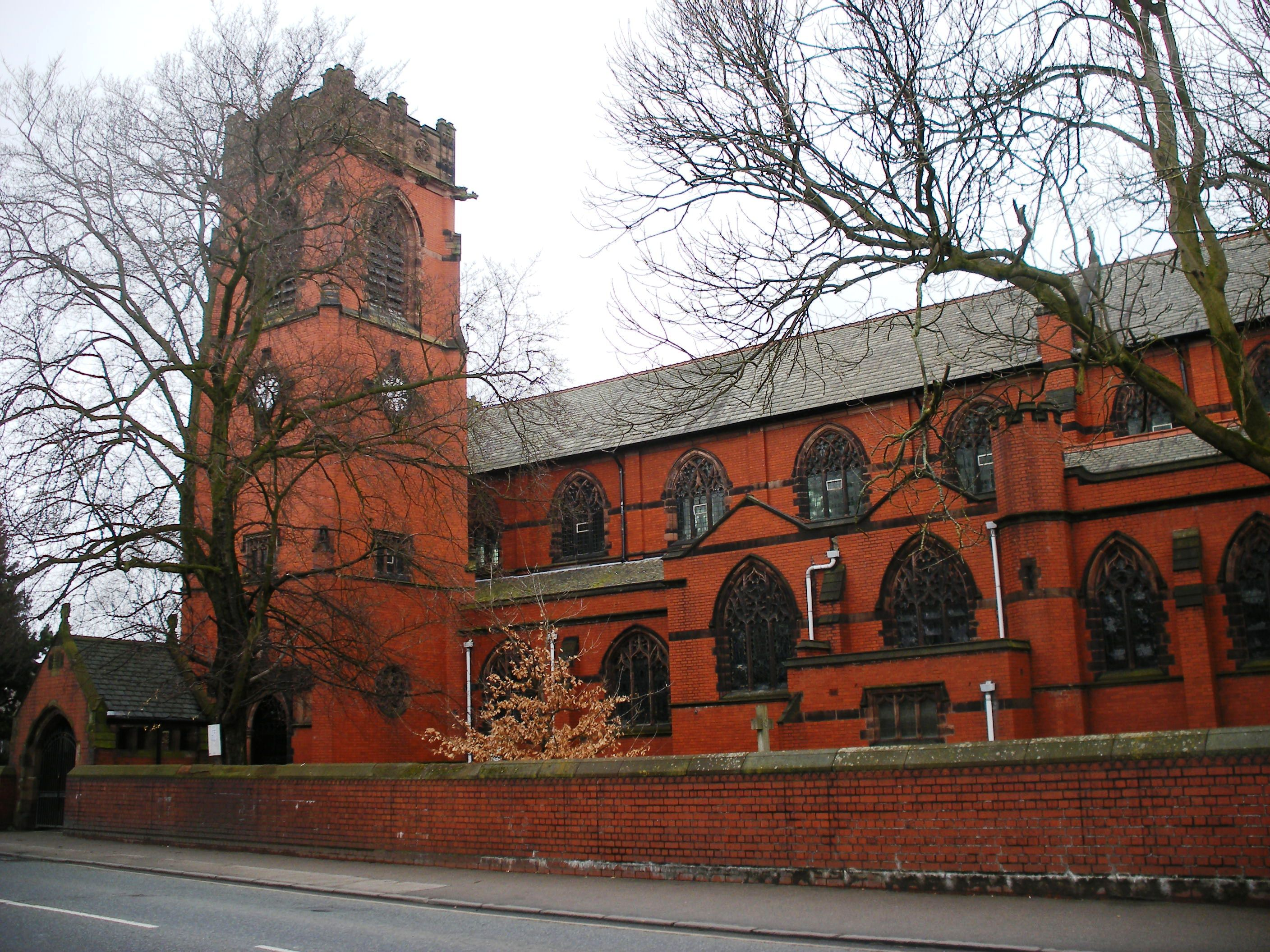 St Thomas's parish church, Chapel Street, Bedford, Greater Manchester, seen from the south